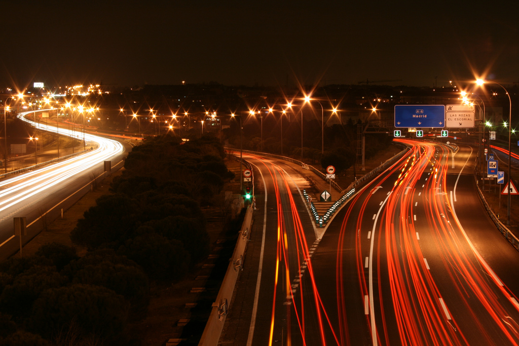 Night view of the A-6 Freeway near Las Rozas (Community of Madrid, Spain).